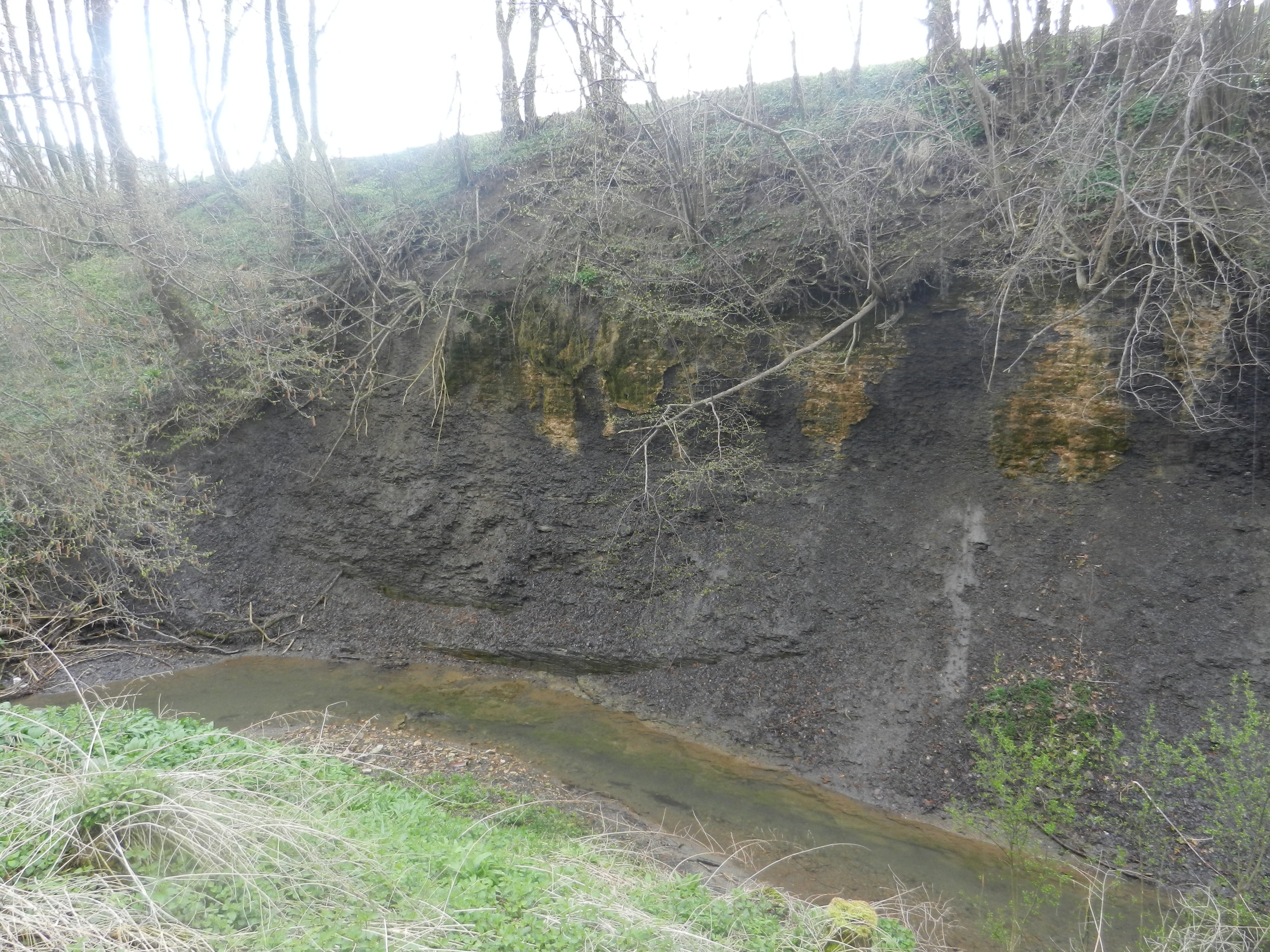 Reichenbach (Starzel)